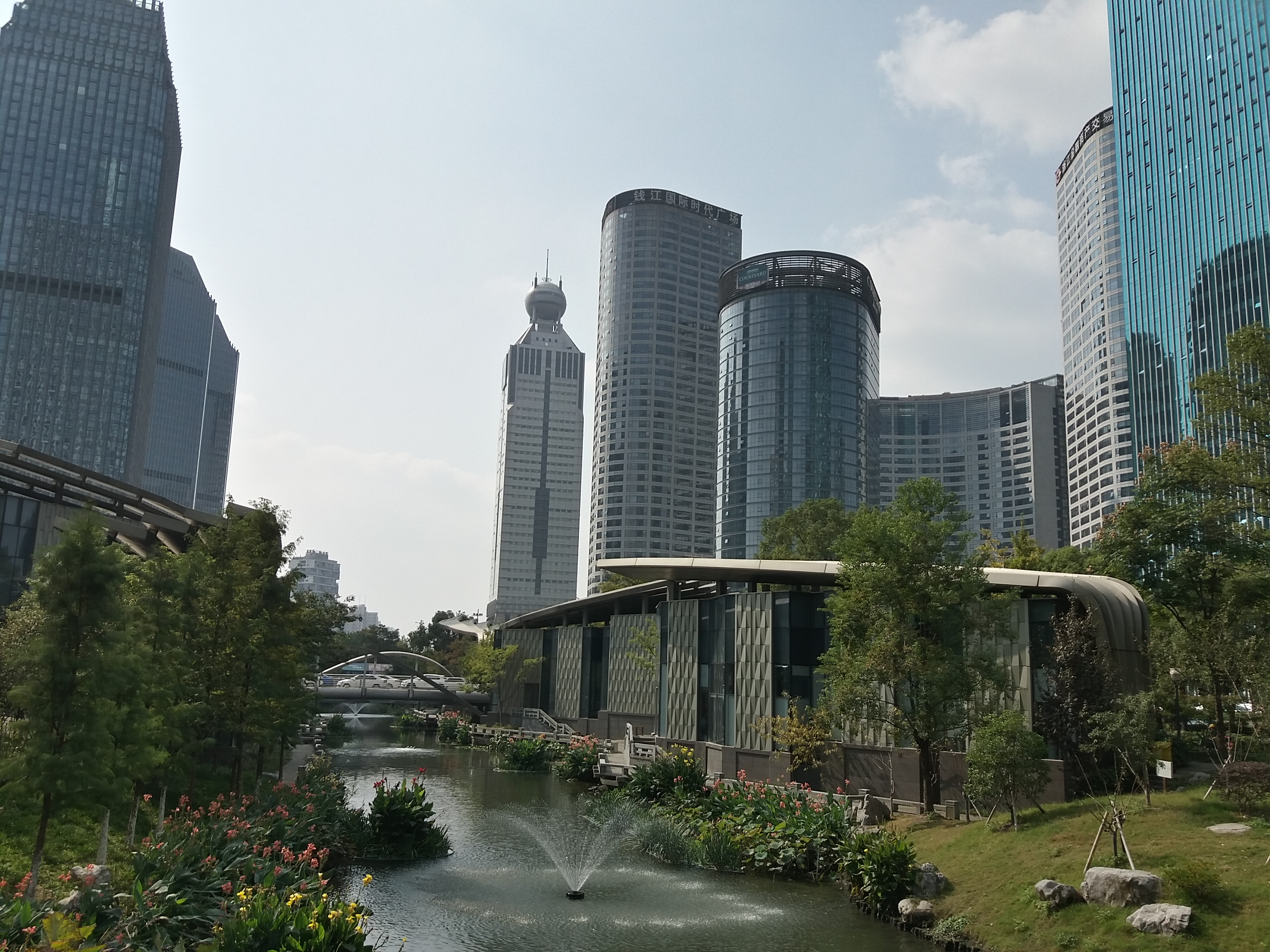 Hangzhou CBD